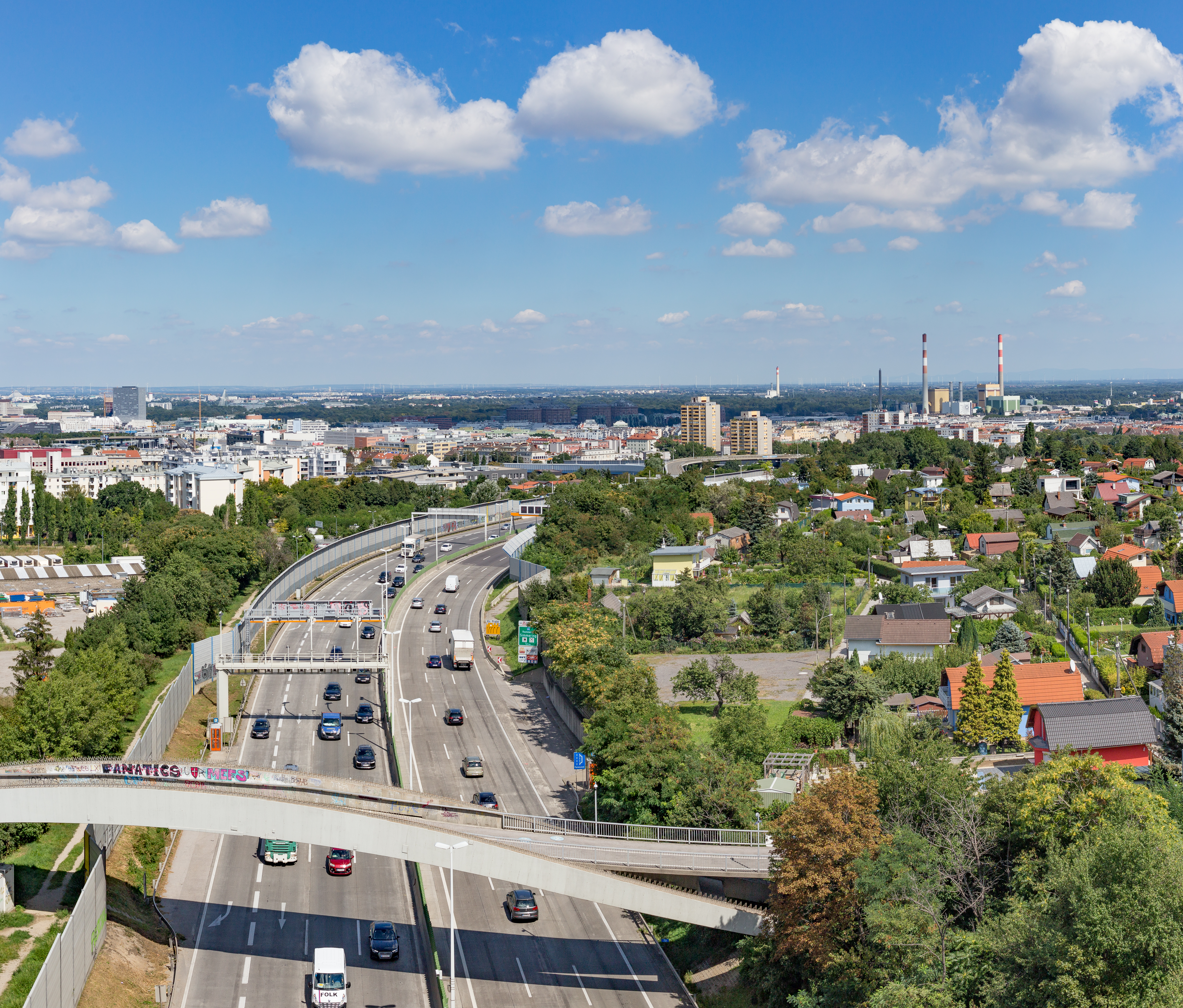 Highway A23, seen from Monte Laa, Absberg tunnel, Vienna, Favoriten